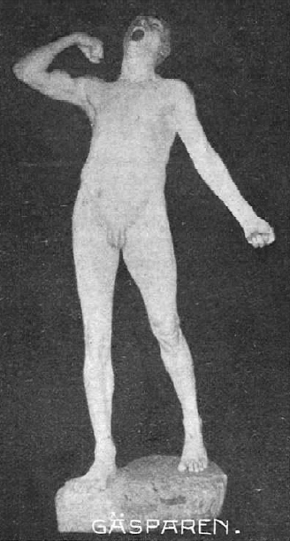 "The yawning", or Séance finie, sculpture by Carolina Benedicks-Bruce